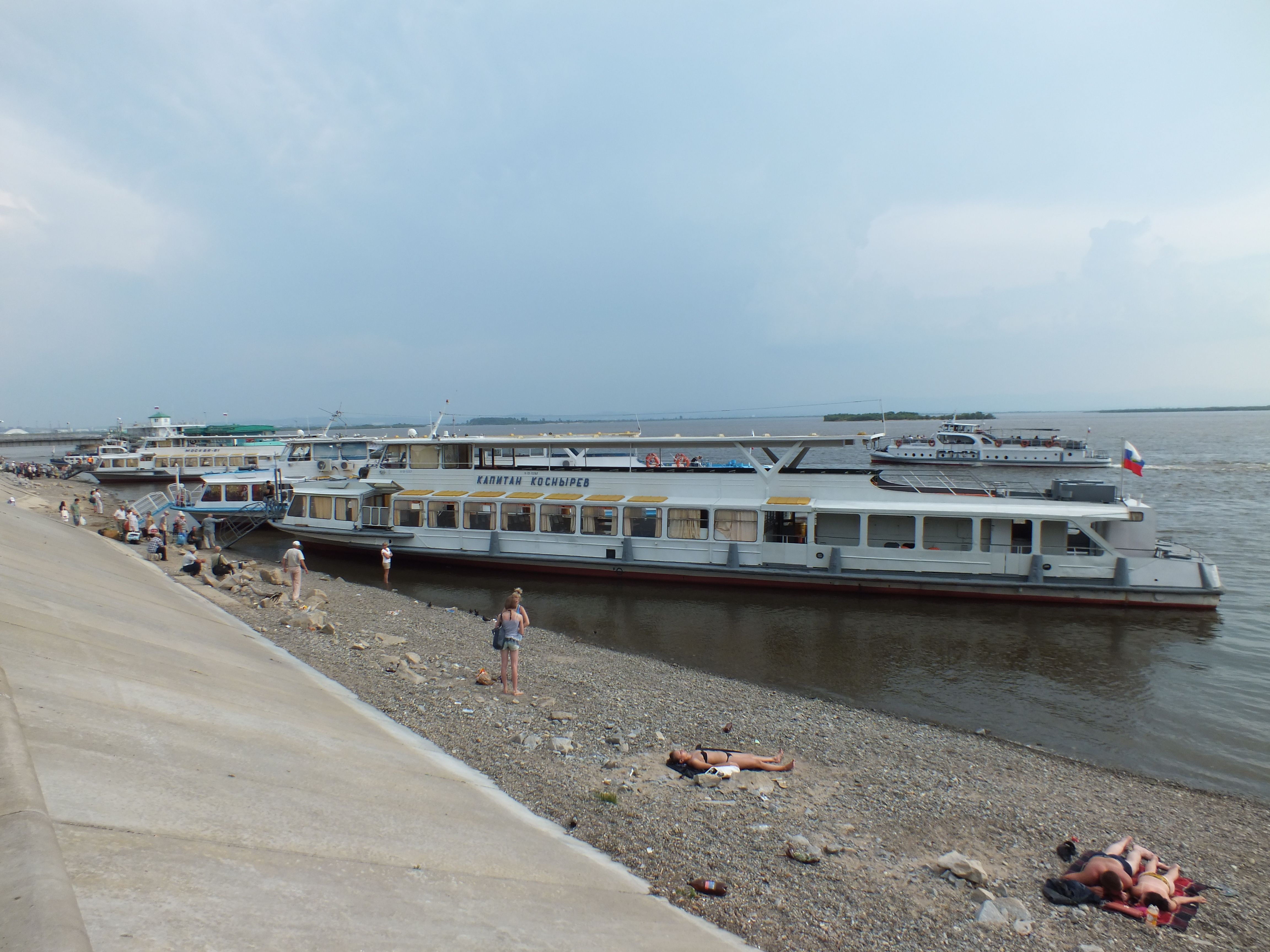 Type Moskva ships